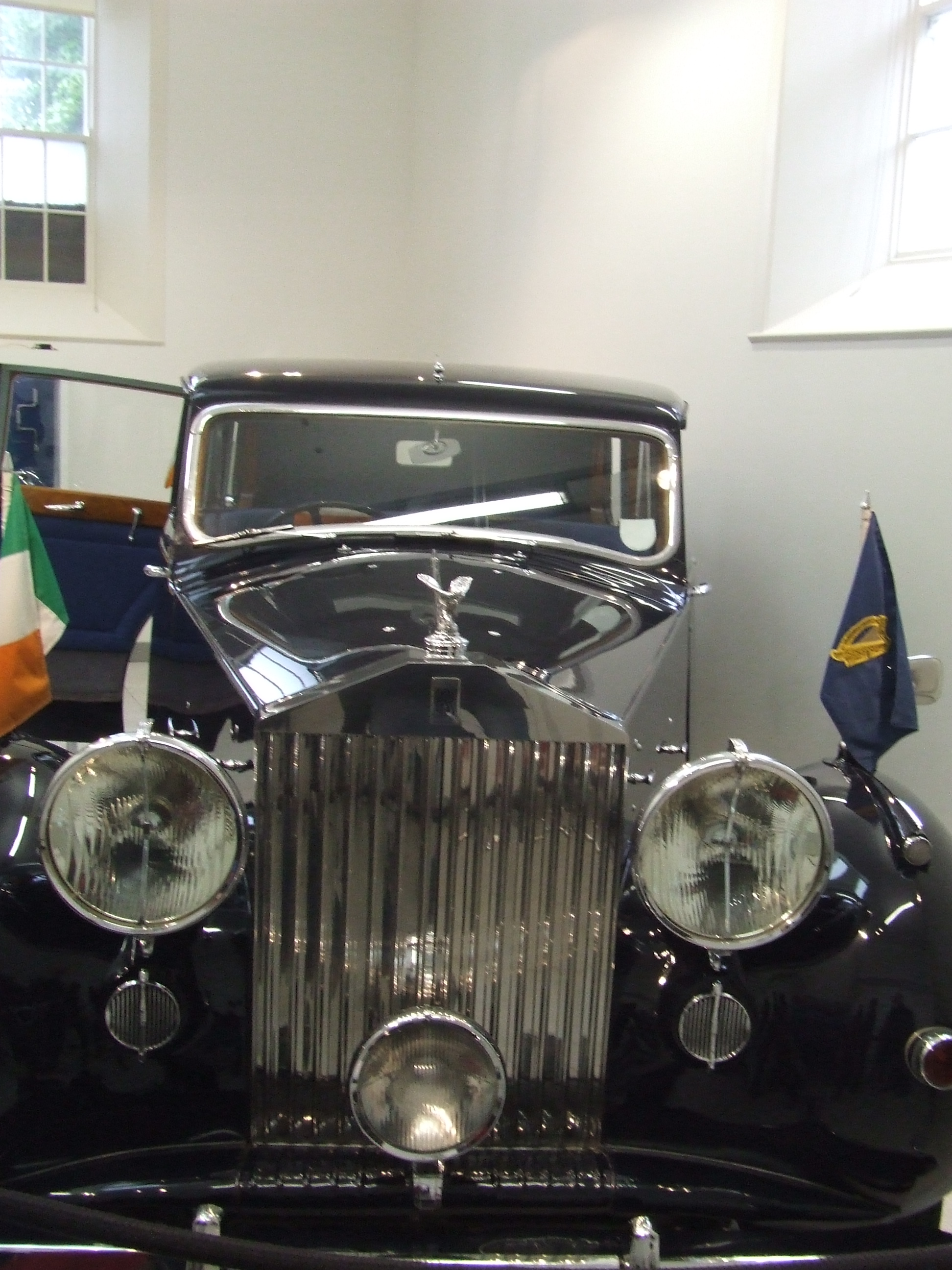 Rolls-Royce Silver Wraith as used by successive Presidents of Ireland. Mainly associated with Éamon de Valera and known as "Dev's car". Currently on display in Áras an Uachtaráin.